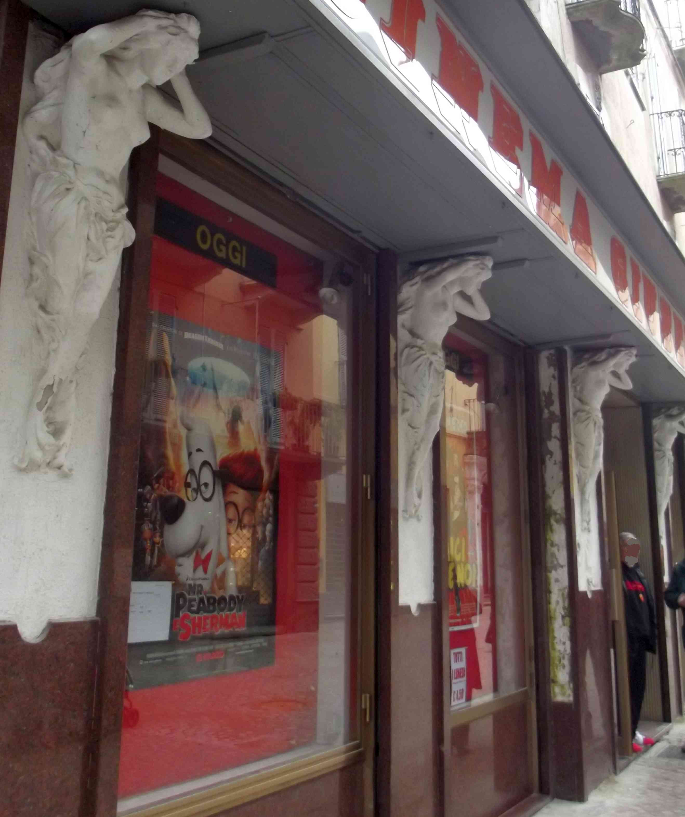 Ivrea (TO, Italy): cinema Giuseppe Boaro